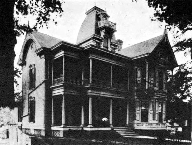 The R.M. Knox House, 1504 W. 6th Street, Pine Bluff, Arkansas as depicted in File:The Knox Family.djvu, page 264.